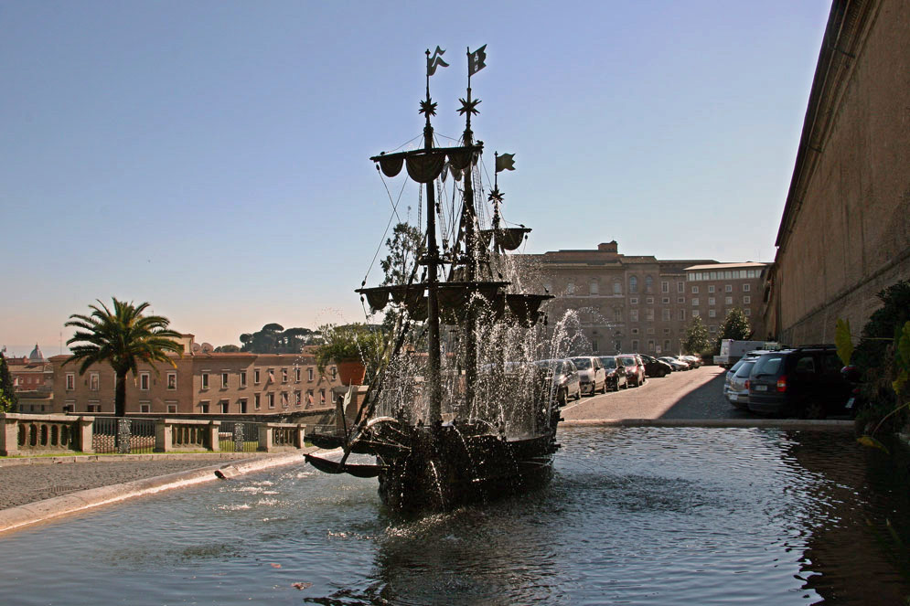 Fontana della Galera in the Vatican City